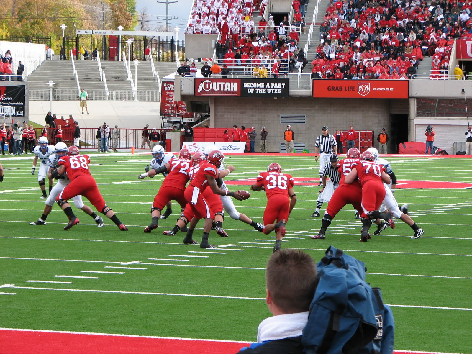 Eddie Wide takes a handoff